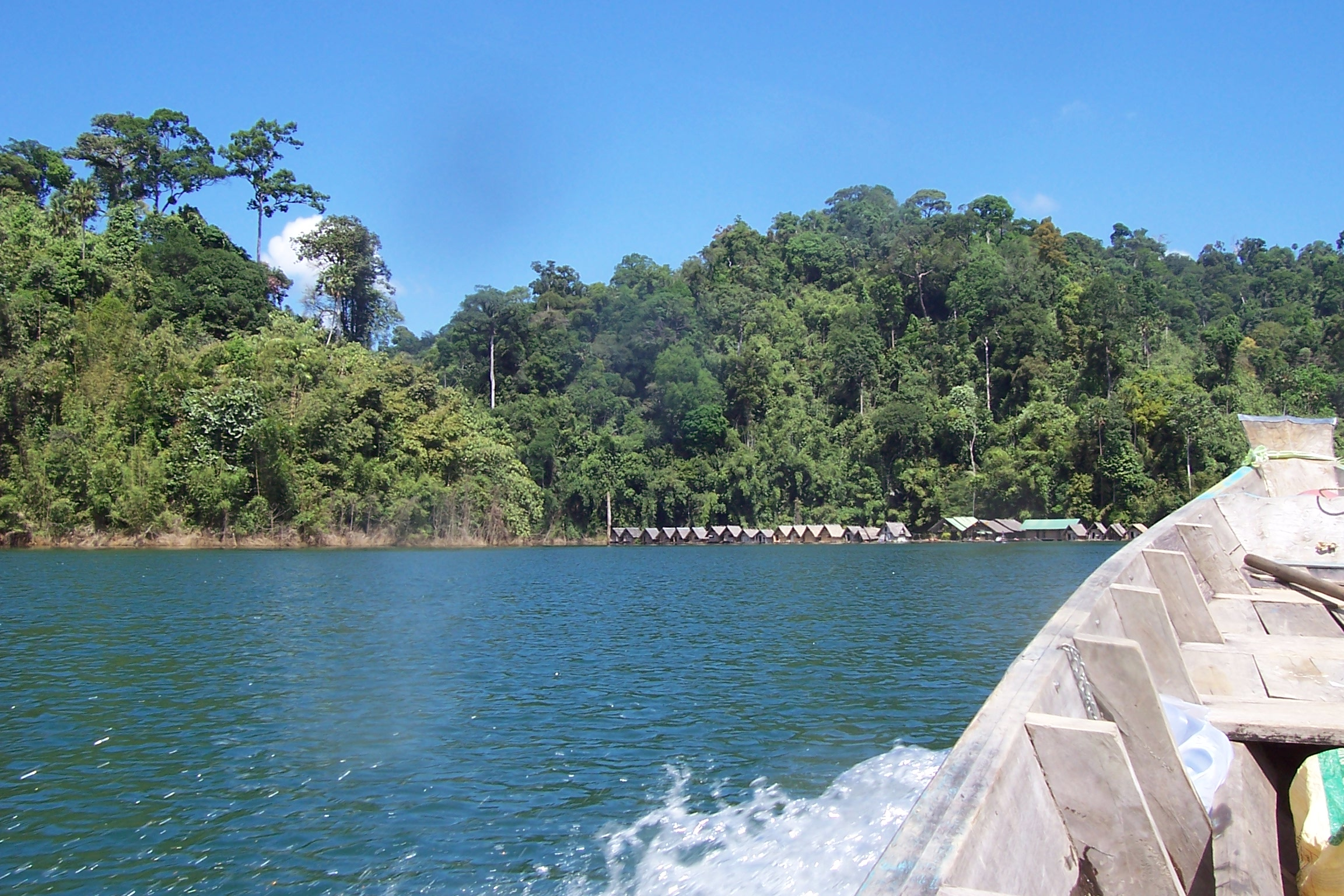 Chieo Lan See, Khao Sok National Park, Thailand